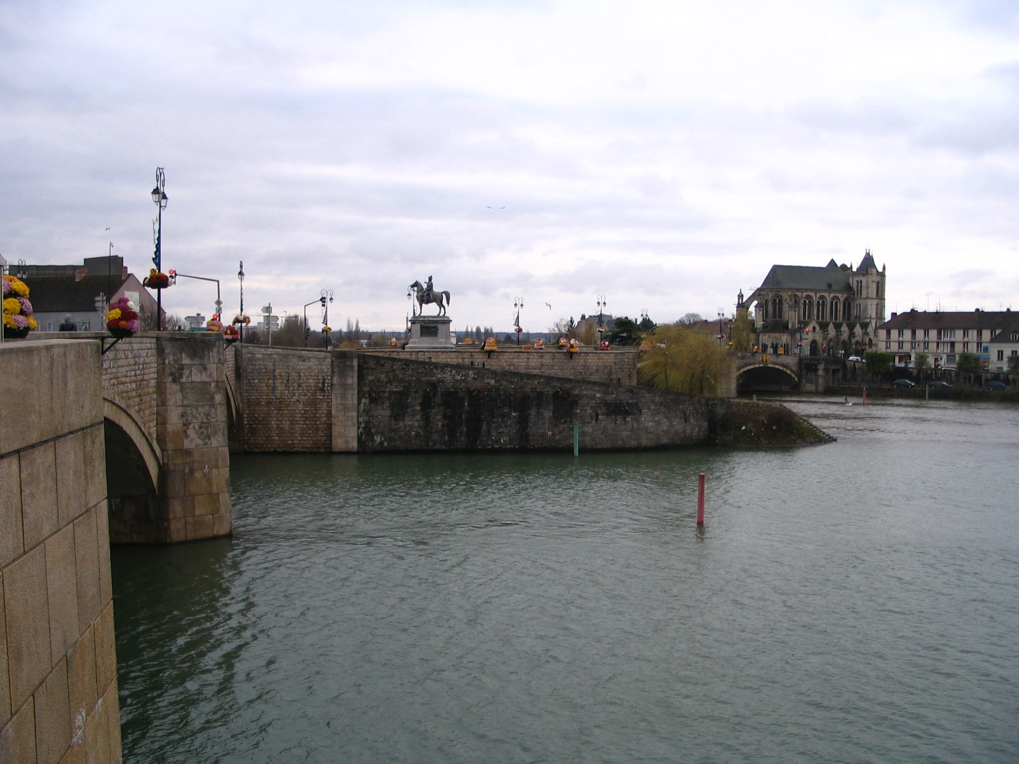 The statue of Napoleon and city center of Montereau-Fault-Yonne, Seine-et-Marne, France, seen from the right bank of River Seine.